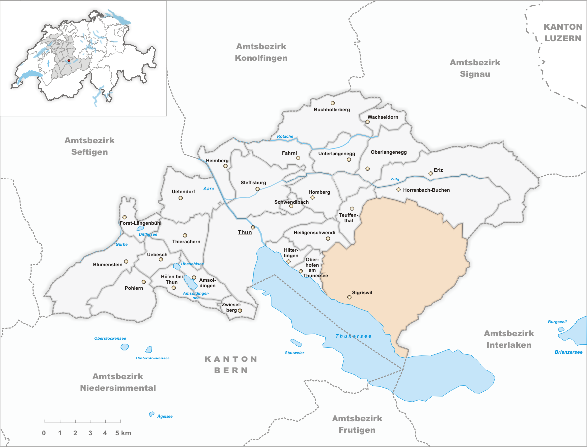 Municipality Sigriswil